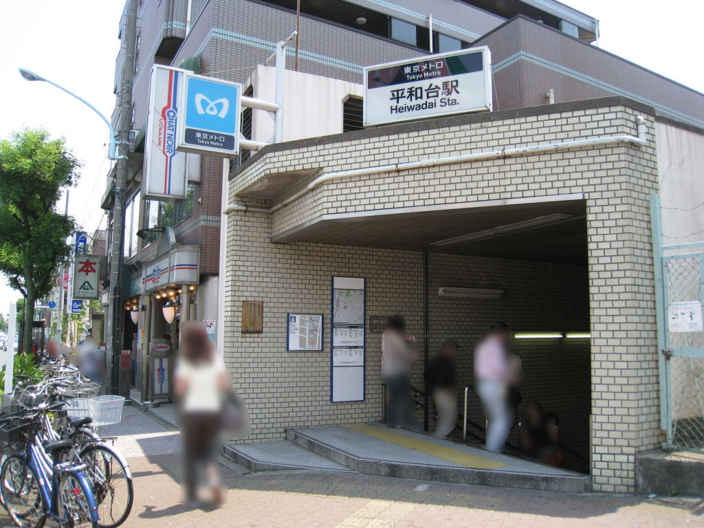 Heiwadai Station entrance